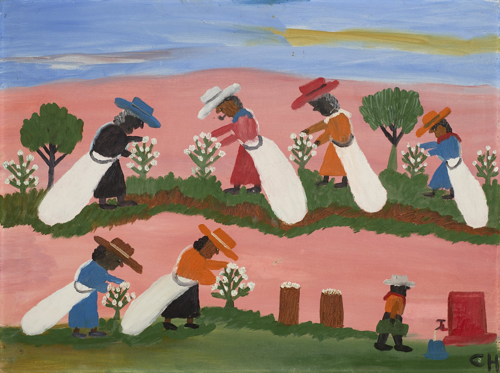 Genre. Naive. Primitive. African American. Six figures picking cotton; one smaller figure headed toward a water spigot in LR.